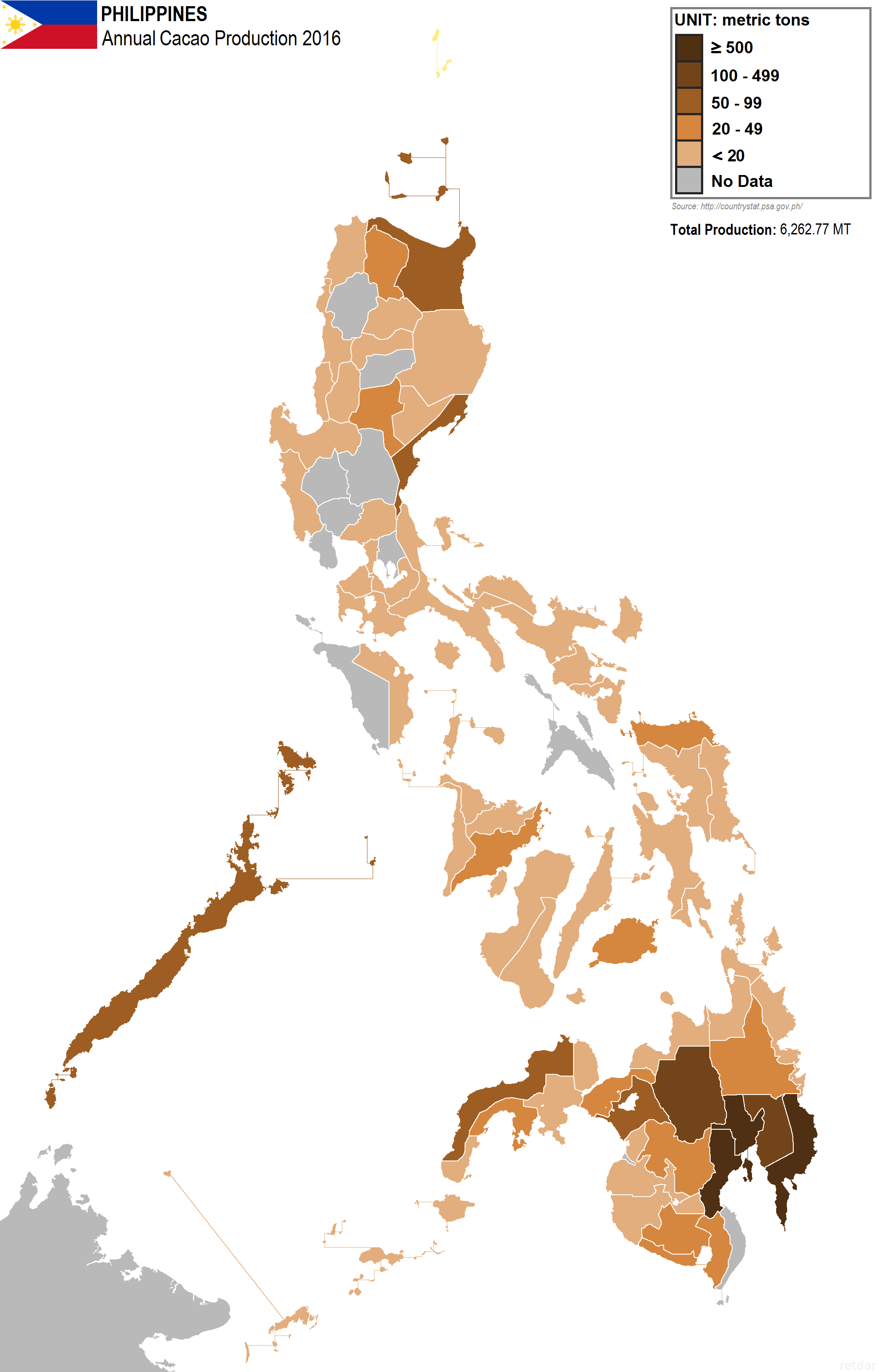 Map showing the annual cacao production for each Philippine province in metric tonnes. Hiligaynon: Mapa nga nagapakita sang tuigan nga produksyon sang kakao sa kada probinsya sang Pilipinas. Filipino: Mapa na nagpapakita ng taunang produksyon ng kakao sa bawat lalawigan ng Pilipinas.